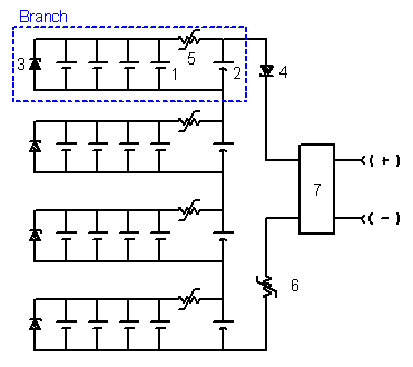 This schematic shows how a Pulses Plus battery pack is assembled, using the following components: 1) primary lithium cell, 2) HLC, 3,4) Schottky diode, 5,6) PTC 7) safety circuit.